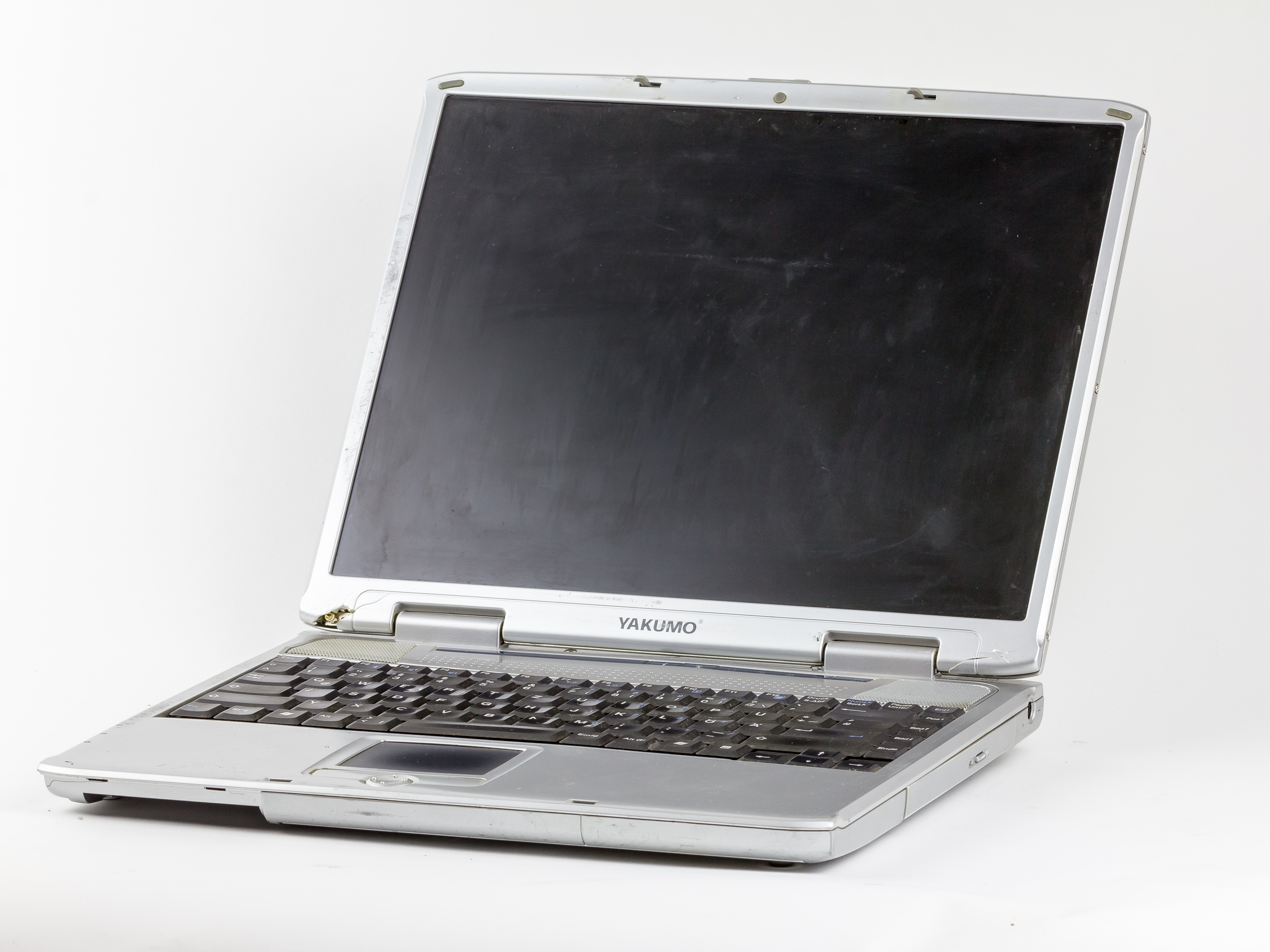 Yakumo Notebook 536S